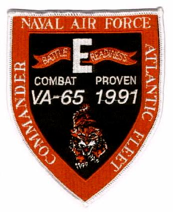 Battle E patch made by the US Navy. Not subject to copyright.